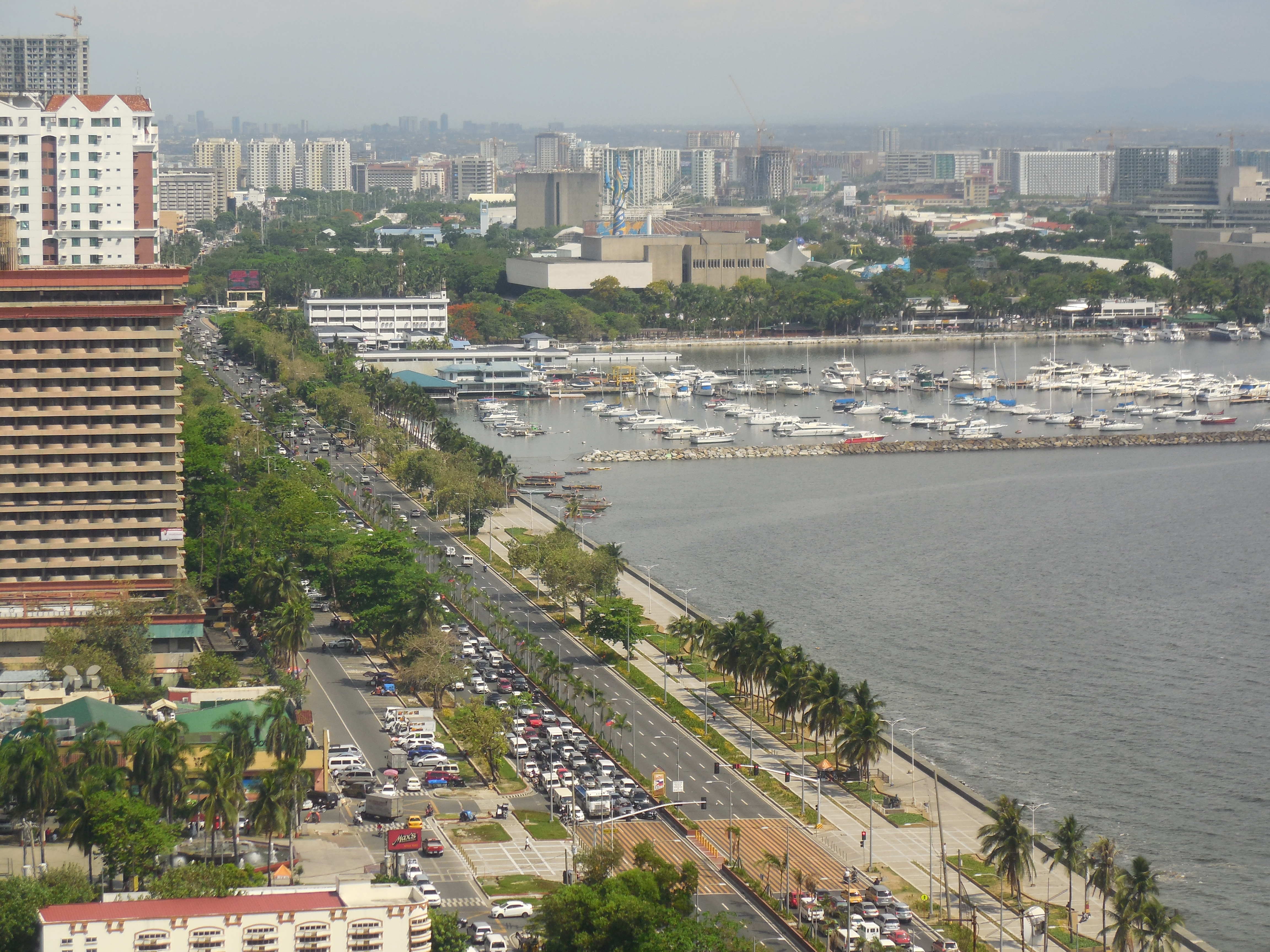 Aerial view of Roxas Boulevard in Ermita, Manila, showing afternoon traffic as well as the Baywalk. Taken from the 27th floor of Diamond Hotel in Ermita, Manila.